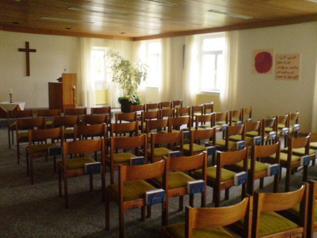 Mennonite church in Bad Friedrichshall-Kochendorf, Baden-Württemberg, Germany